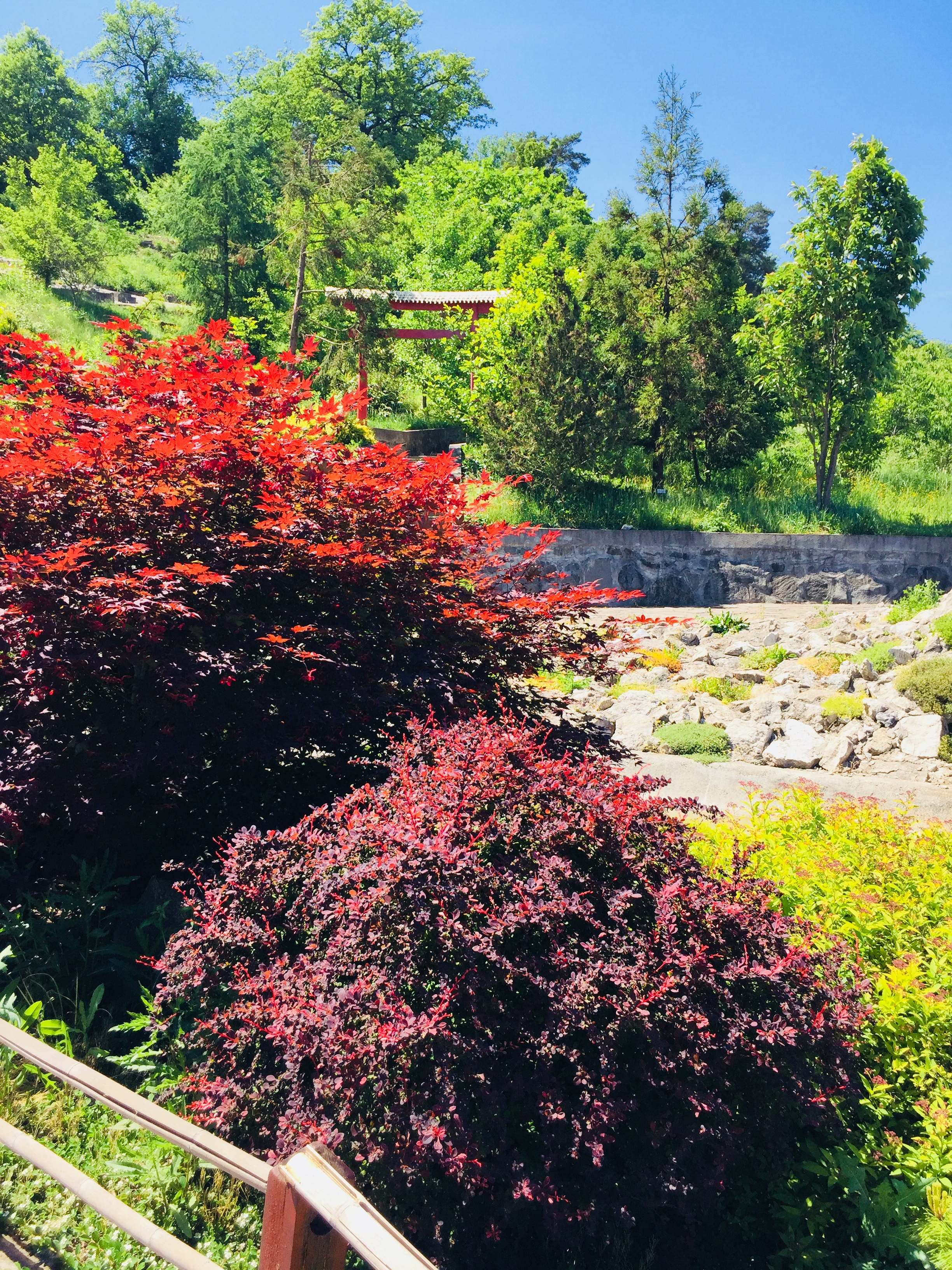 Japanese garden of the Jibou Botanical Garden